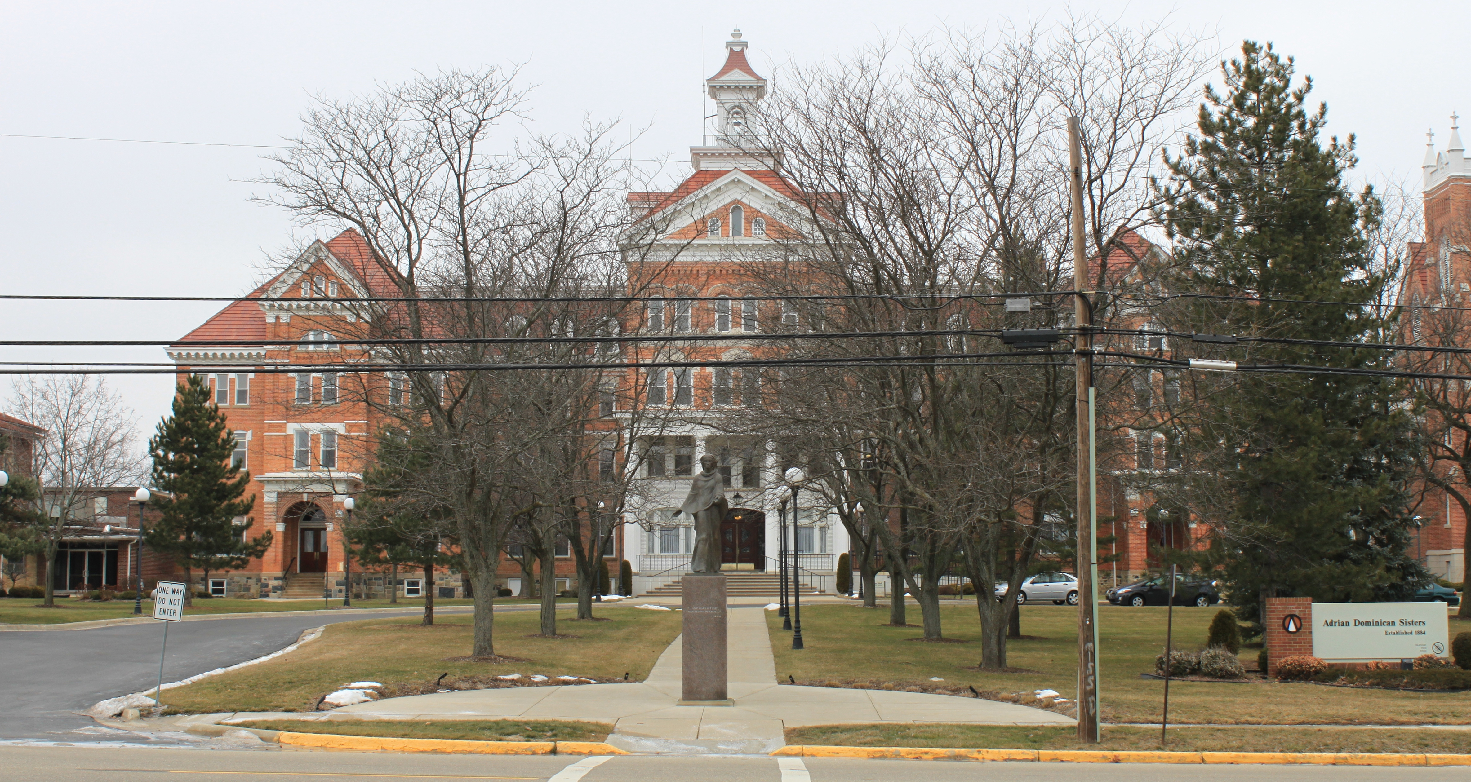 Adrian Dominican Sisters Motherhouse, 1257 Siena Heights Drive, Adrian, Michigan.